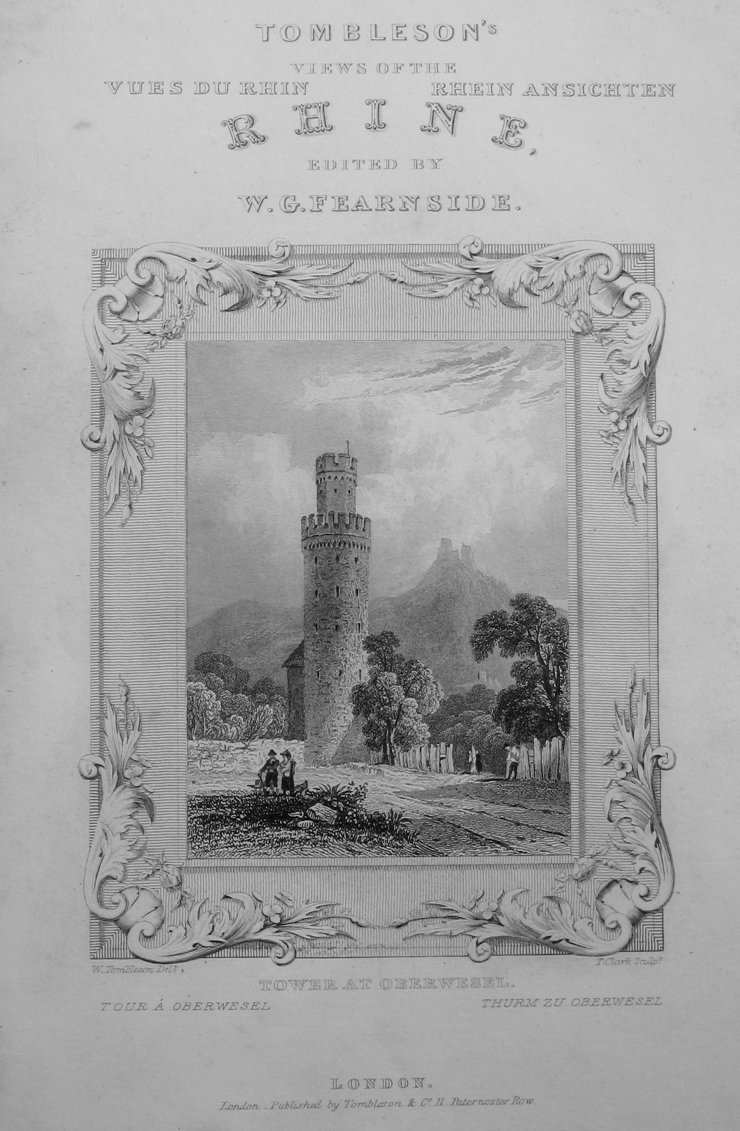 First illustration in "Views of the Rhine" from William Tombleson (volume no. 1, first issue 1832); the bottom left shows "W. Tombleson Del.t" as creator of the original drawing, the bottom right "T. Clark Sculp.t" as creator of the steel engraving. It shows one of the towers at Oberwesel on the Middle Rhine in Germany.